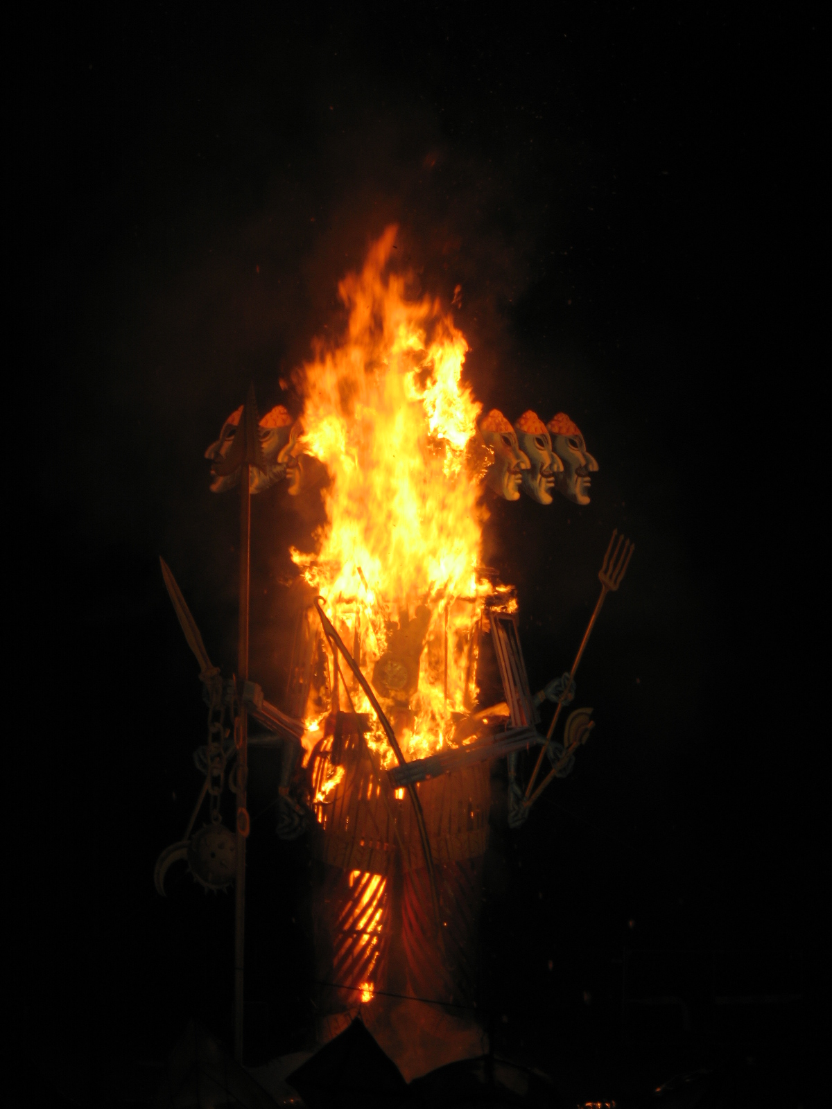 Effigy of Ravana burns. Dashehra Diwali Mela in Manchester, England, 2006.